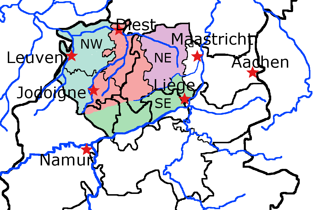 This is one of three files showing different proposals made in the 20th century.